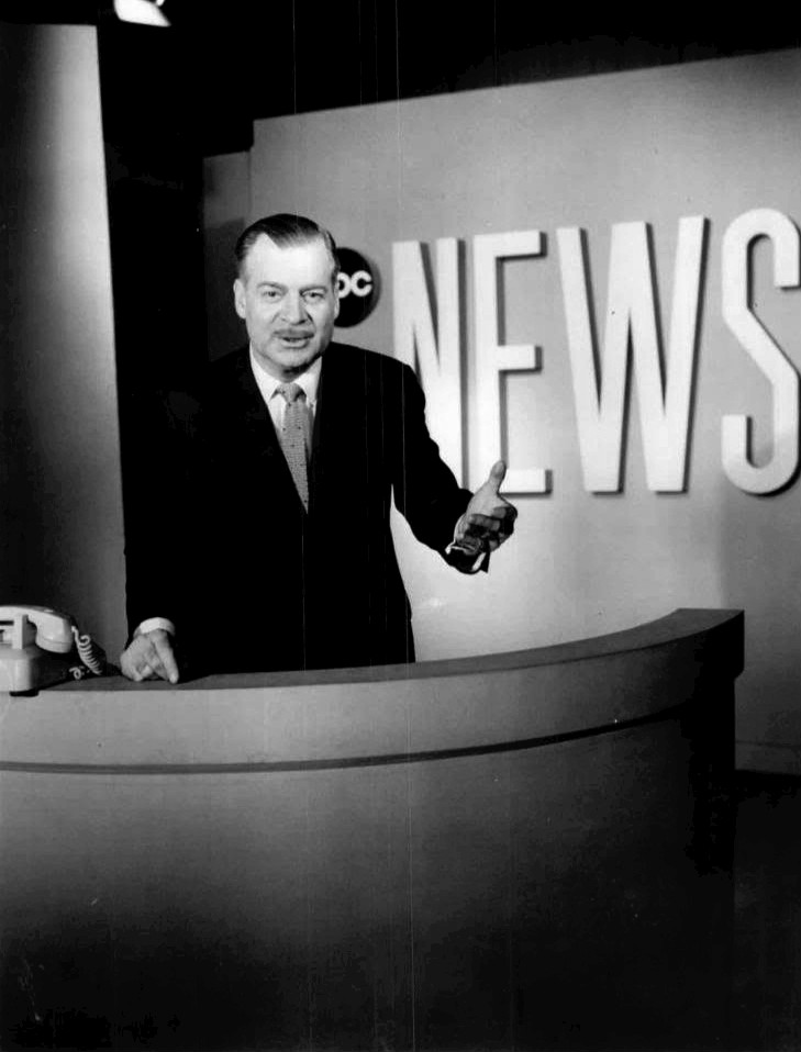 ABC Television Promotional Photograph of Ron Cochran presenting the news program "Ron Cochran and the News"